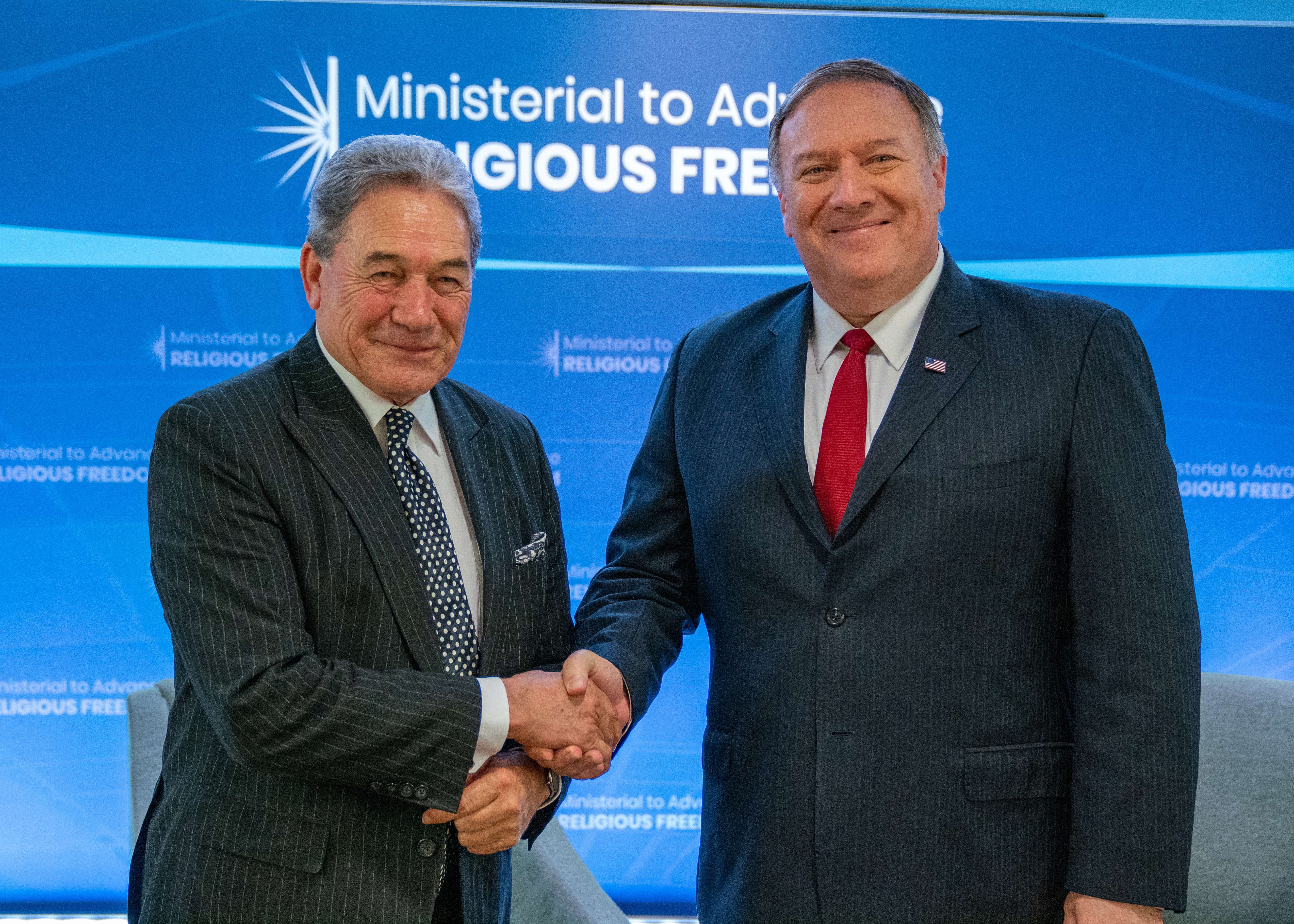 U.S. Secretary of State Michael R. Pompeo meets with New Zealand Foreign Minister Winston Peters during a pull- aside meeting at the second annual Ministerial to Advance Religious Freedom at the U.S. Department of State in Washington D.C. on July 17, 2019. [State Department photo by Ron Przysucha/ Public Domain]